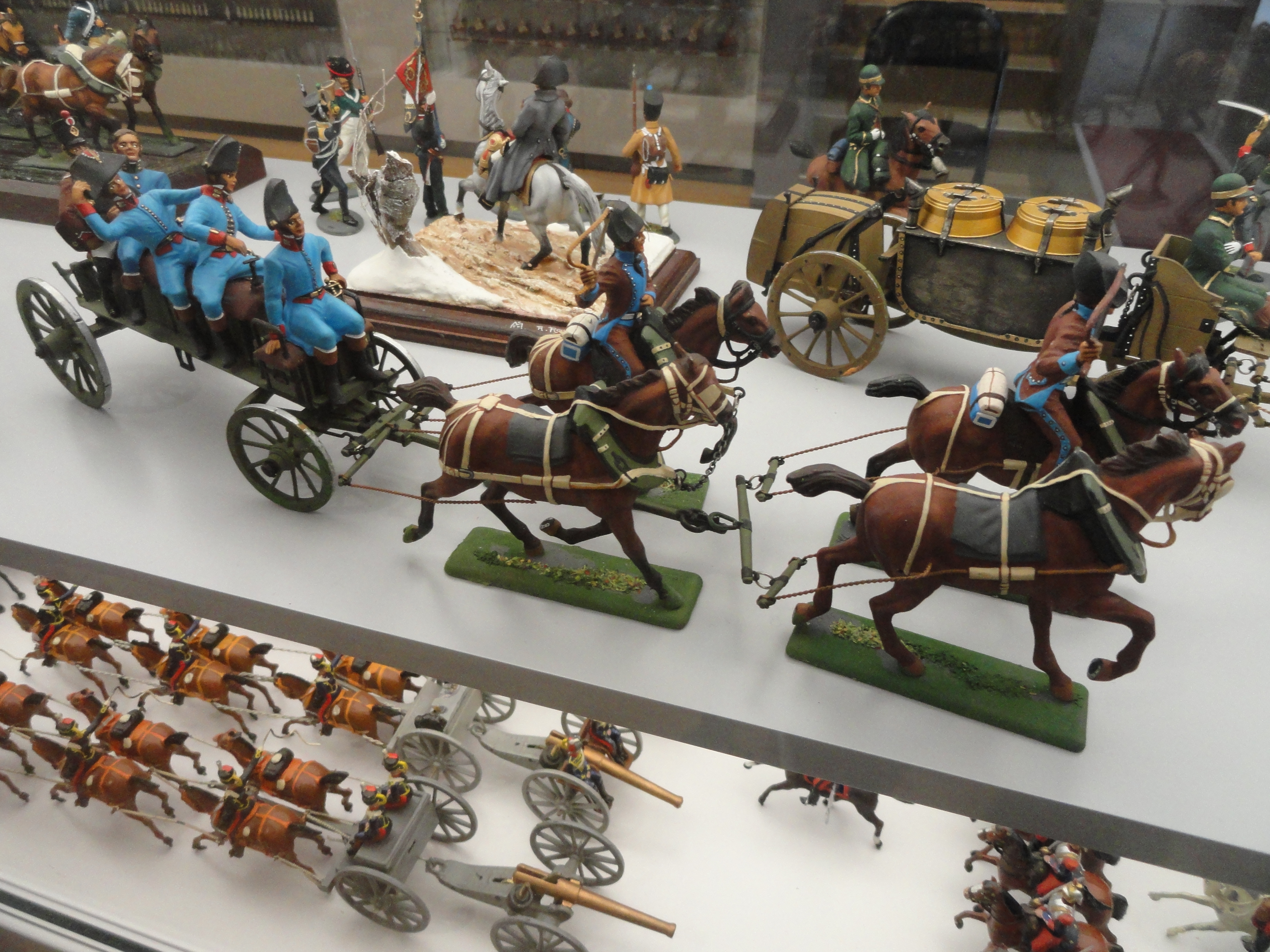 paris_invalides_toy_soldiers_napoleonic_health_service_2